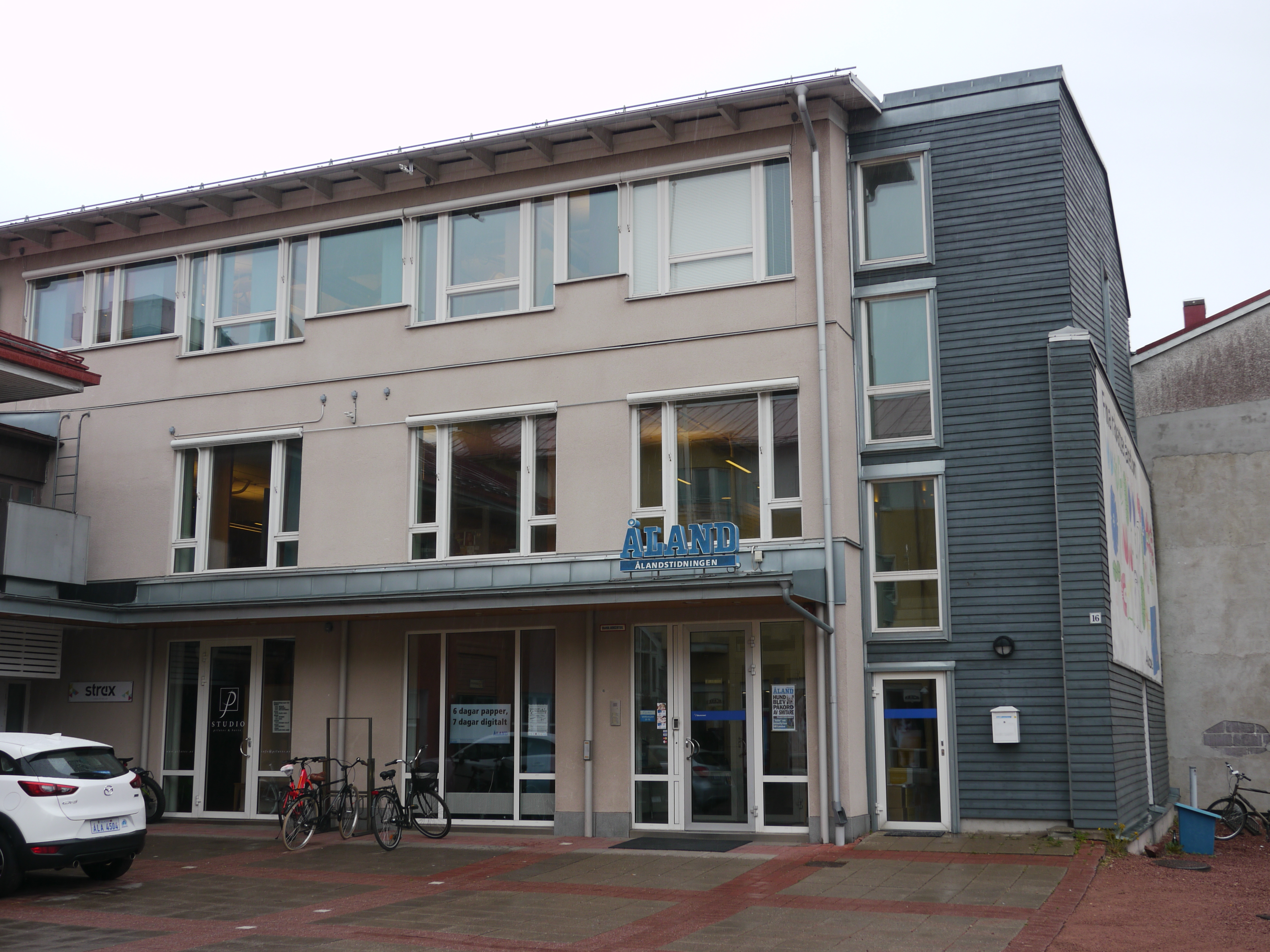 Office building of the Ålandic media company Ålandstidningen.